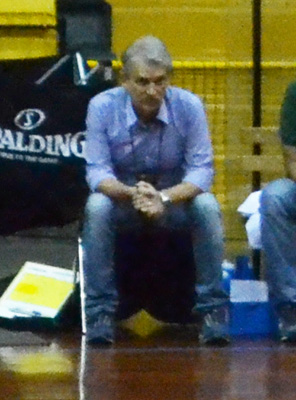 Enzo Porchi, basketball coach